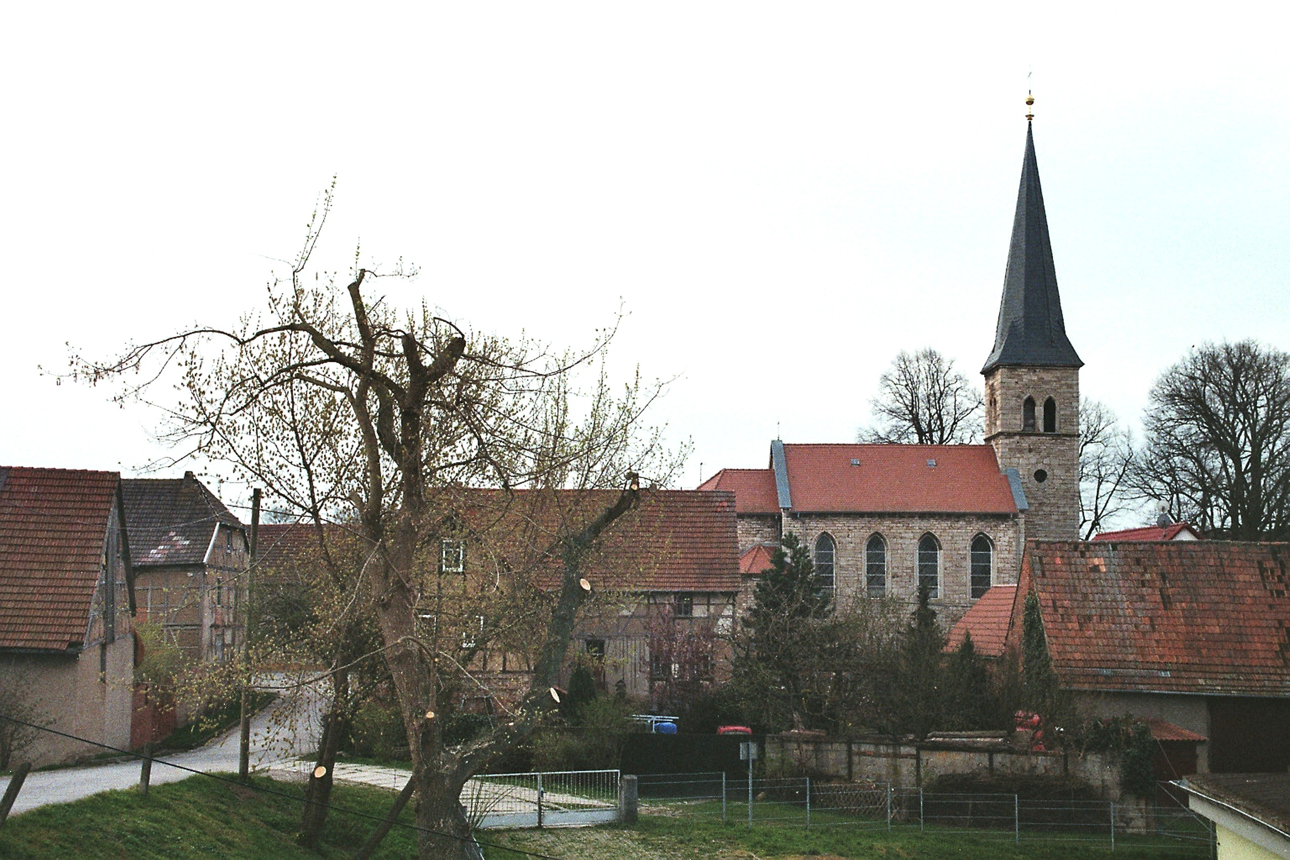 Bothfeld (Lützen), the village church